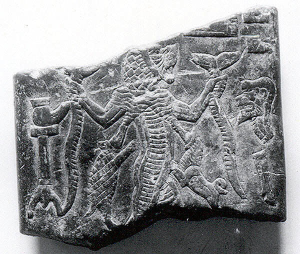 Babylonian; Amulet; Stone-Ornaments-Inscribed